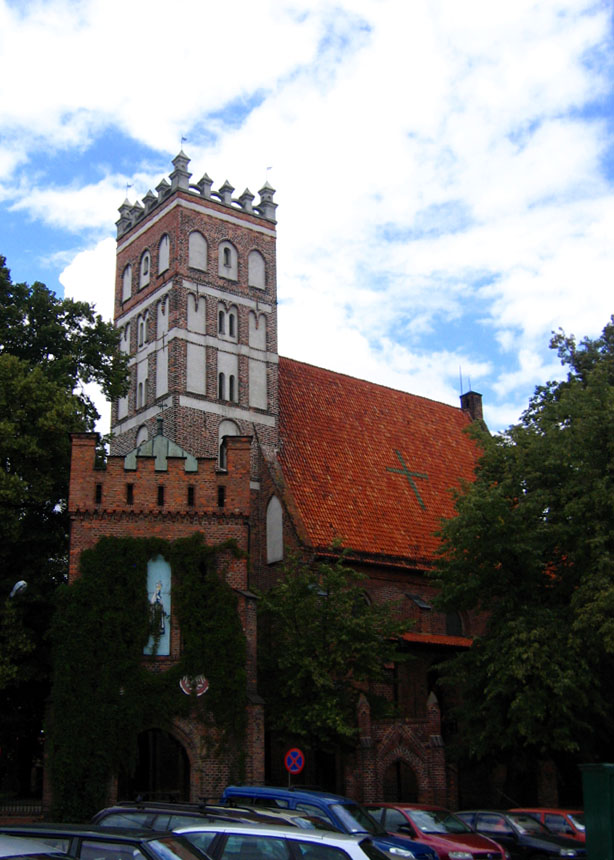 Collegiate church in Środa Wielkopolska